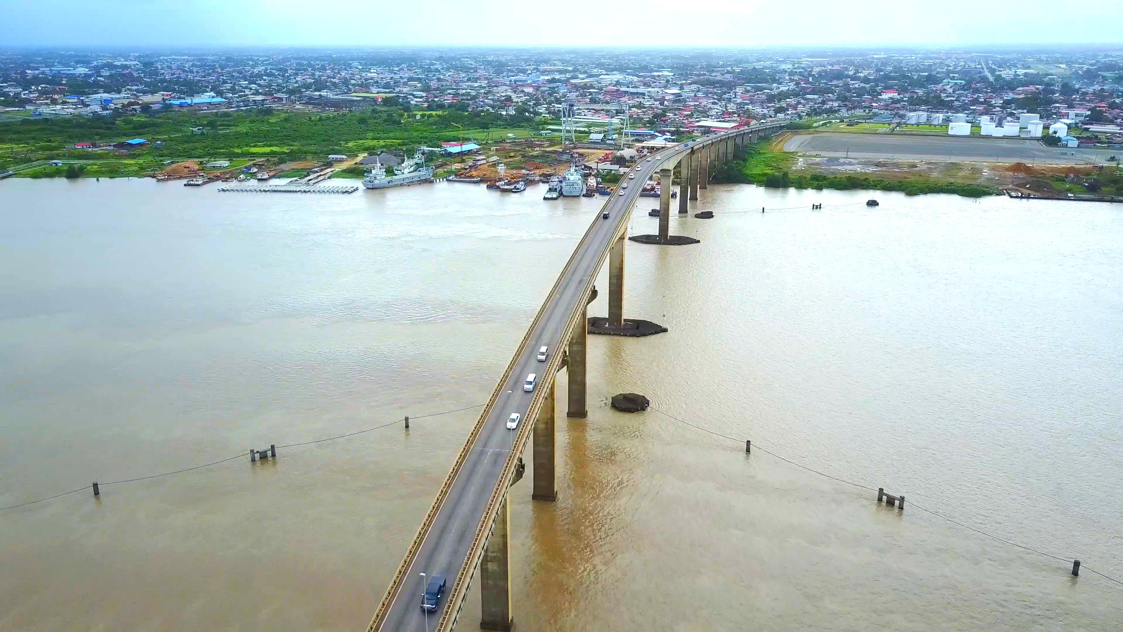 Jules Wijdenbosch Bridge